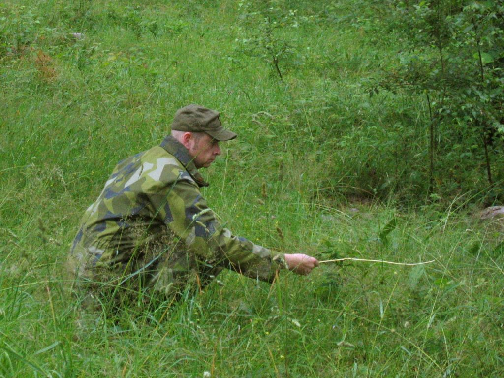 A swedish soldier uses a twig to search for tripwires in the grass.